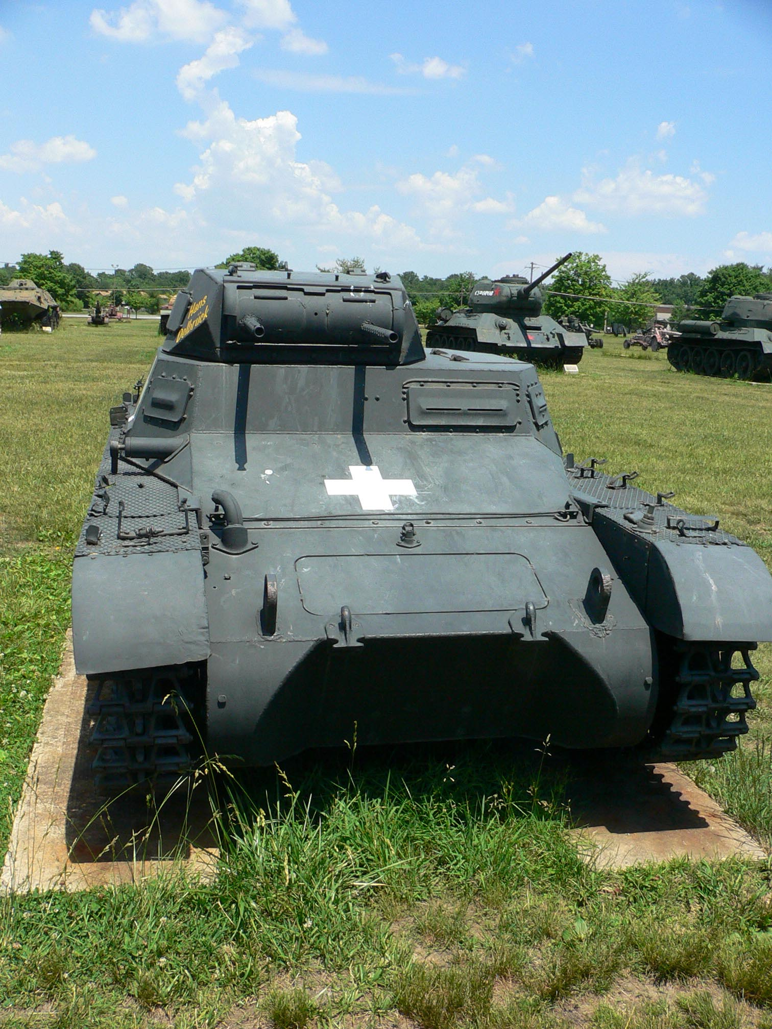 Picture taken by myself, Mark Pellegrini, at the United States Army Ordnance Museum (Aberdeen Proving Ground, MD) on June 12, 2007.